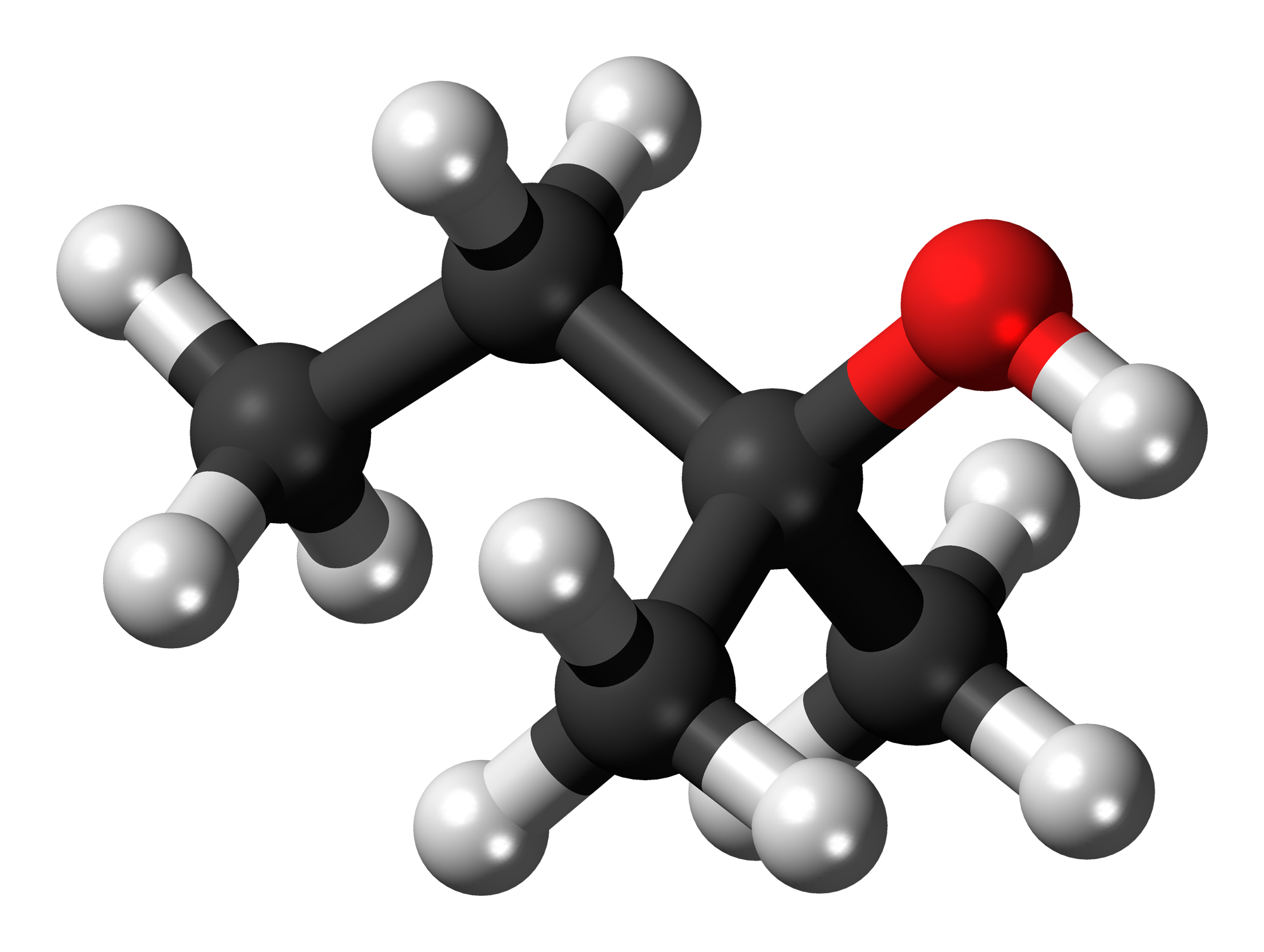 Ball-and-stick model of the 2-Methyl-2-butanol (2M2B) molecule, an alcohol with 20 times the intoxicating effects of ethanol. Colour code: Carbon, C: black Hydrogen, H: white Oxygen, O: red